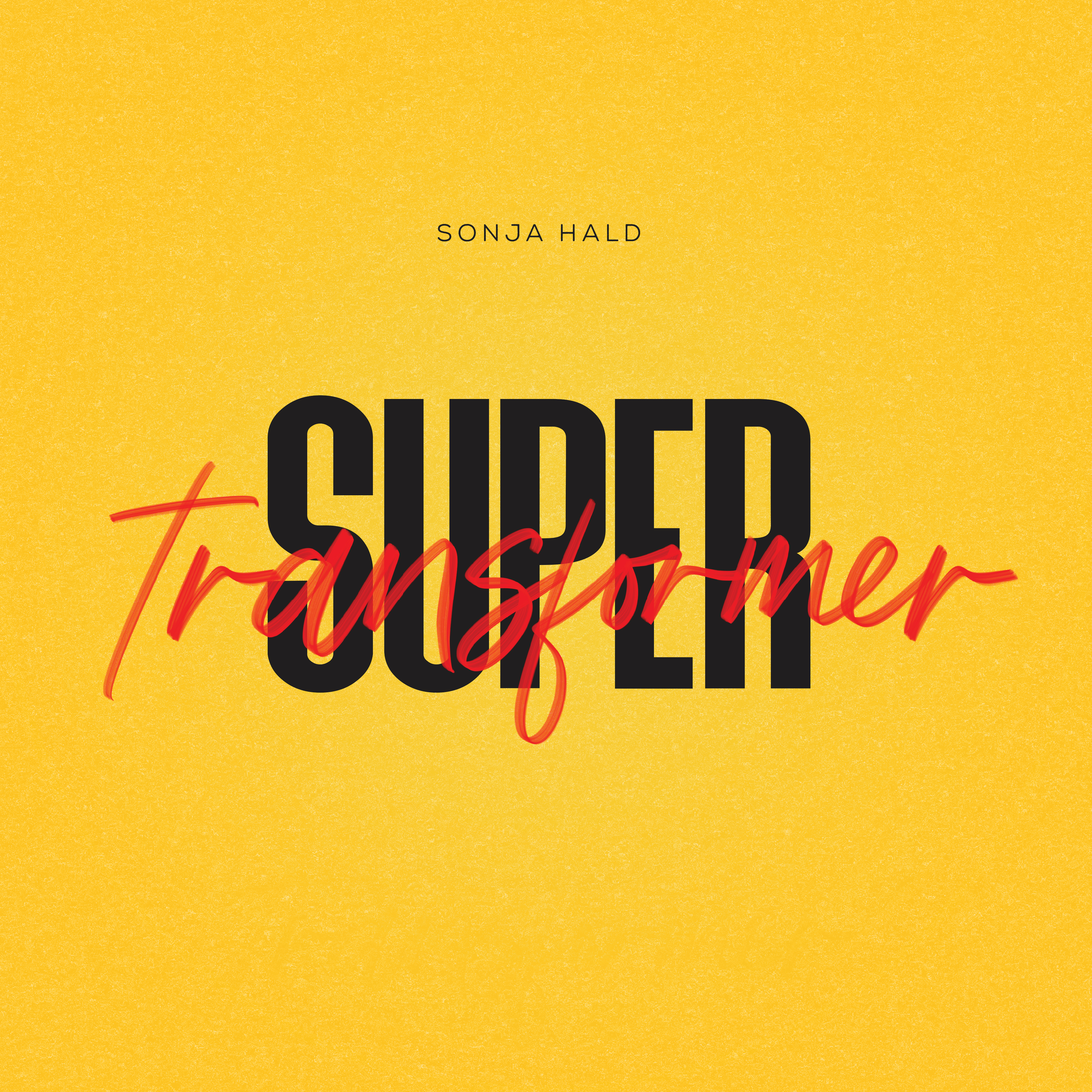 Artwork for the album "Supertransforme"r by Sonja Hald